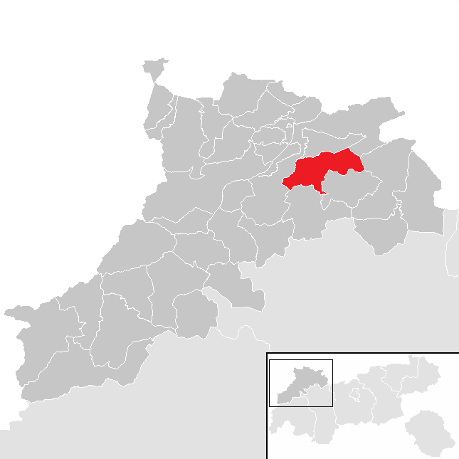 District Reutte